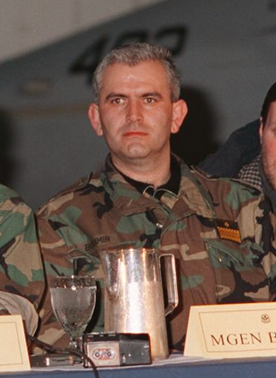 General major of the Croatian Defence Council Živko Budimir